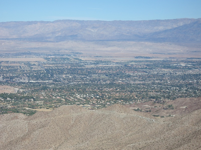 View of Palm Desert from a vista point on CA Hwy 74. Moved here as part of Wikivoyage migration.